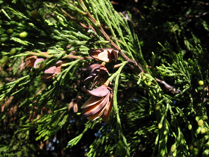 Calocedrus decurrens Description: Incense-cedar, Calocedrus decurrens, foliage and cones Viewpoint location: South end of Manzanita Safety Rest Area, Southbound Interstate 5, milepost 62.8, 6 miles north of Grants Pass, Oregon. Lat/Long: 42.5180°N, 123.3655°W (WGS84/NAD83) USGS Sexton Mountain Quad [1] Viewpoint elevation: 1260' View direction: North Date and time: 2005.10.22 11:56:56 PDT Camera: Canon PowerShot S110 Photographer: Walter Siegmund ©2005 Walter Siegmund